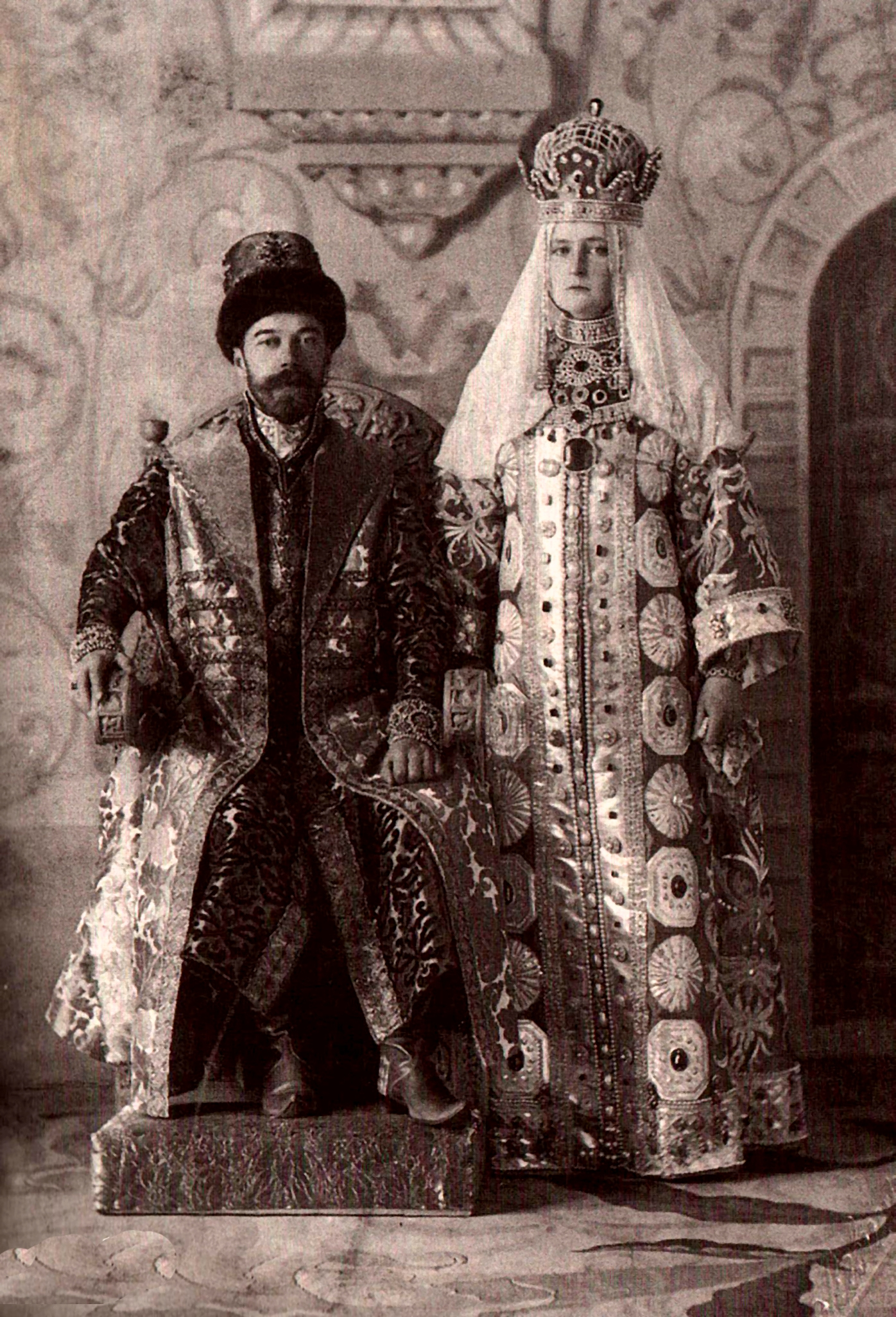 Nicholas II of Russia and Alexandra Fyodorovna (Alix of Hesse) in Russian dress